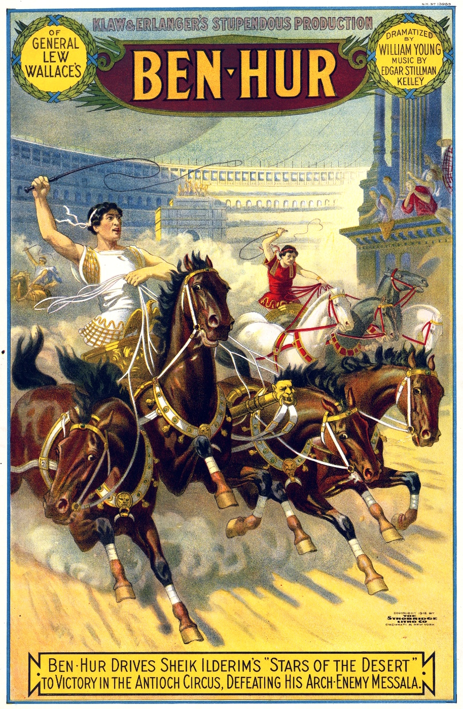 Poster from the Brodway premiere of Ben Hur. Adapted by William Young from the Lew Wallace novel. Music by Edgar Stillman Kelley, Produced by A. L. Erlanger and Marc Klaw Manhattan Theatre, New York, NY, ca. 1899 Scenes of the chariot race grace most of the extant posters from this run. The play used real horses on treadmills.